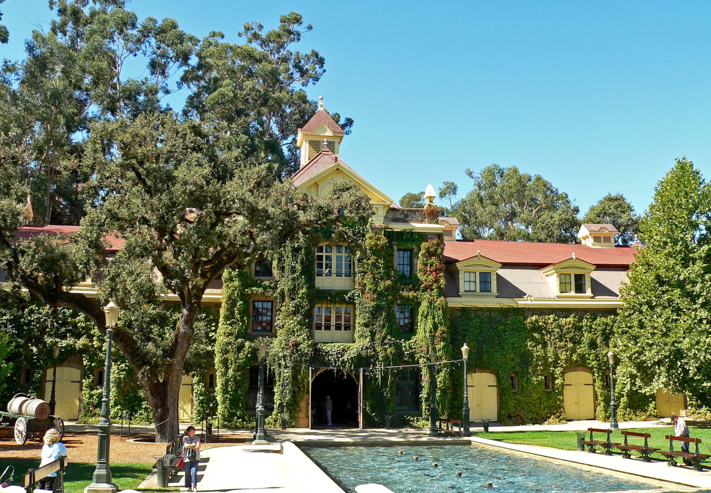 Photo of Niebaum-Coppola winery in Napa Valley, California